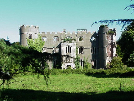 Ruperra Castle is situated in the county borough of Caerphilly in South East Wales.